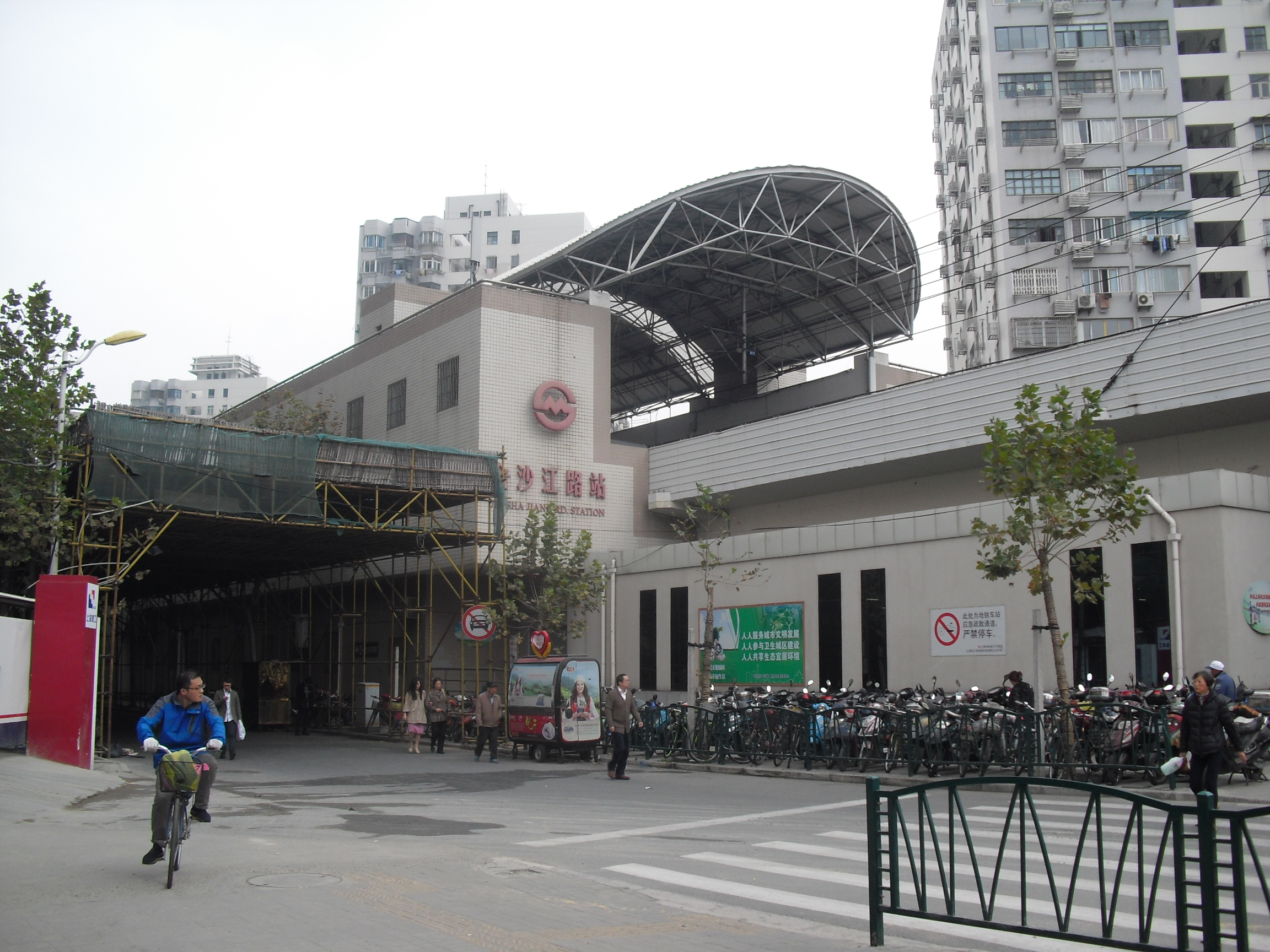 This picture was taken in 23/11/2014,before JinshajiangRoad Station.